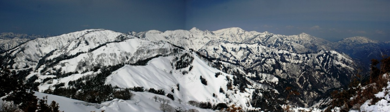 Mount Oizuru and_Mount_Ogaza_from_Sanpoiwadake_2010-4-18